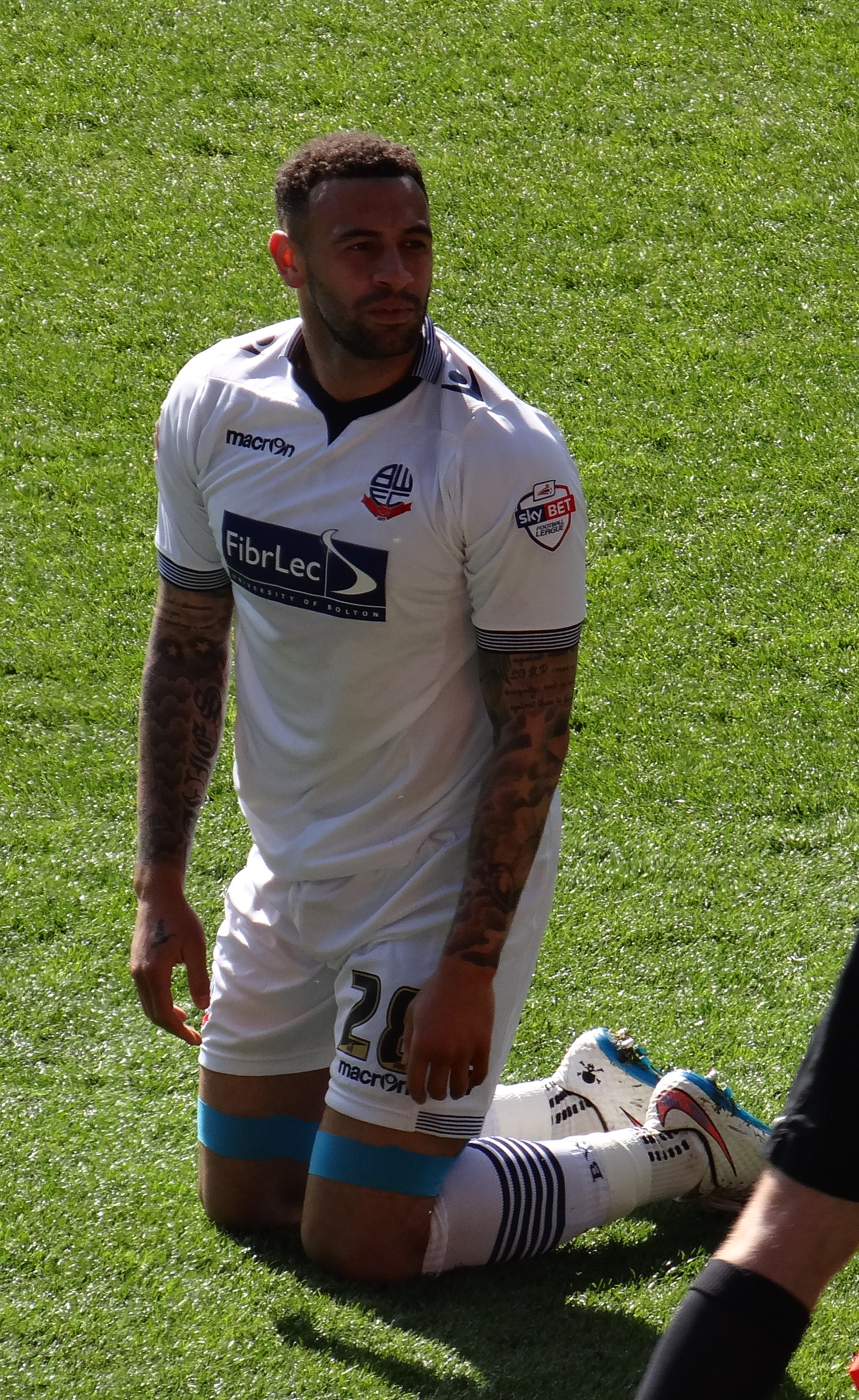 Footballer Craig Davies in 2015.